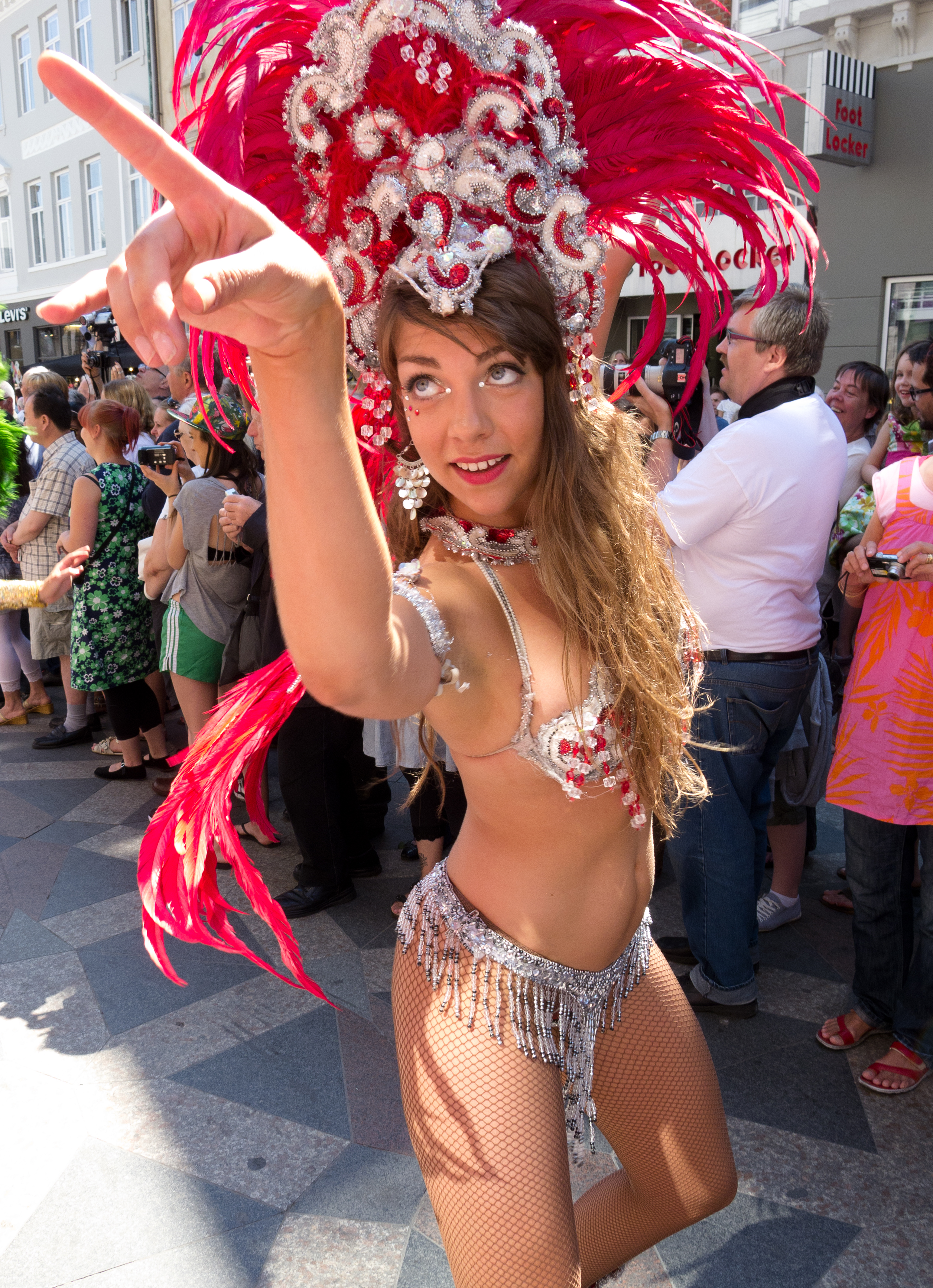 Copenhagen Carnival 2011. The parade. See full set as a slideshow.